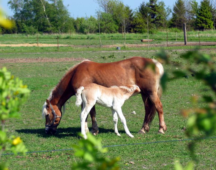 Hors with a foal